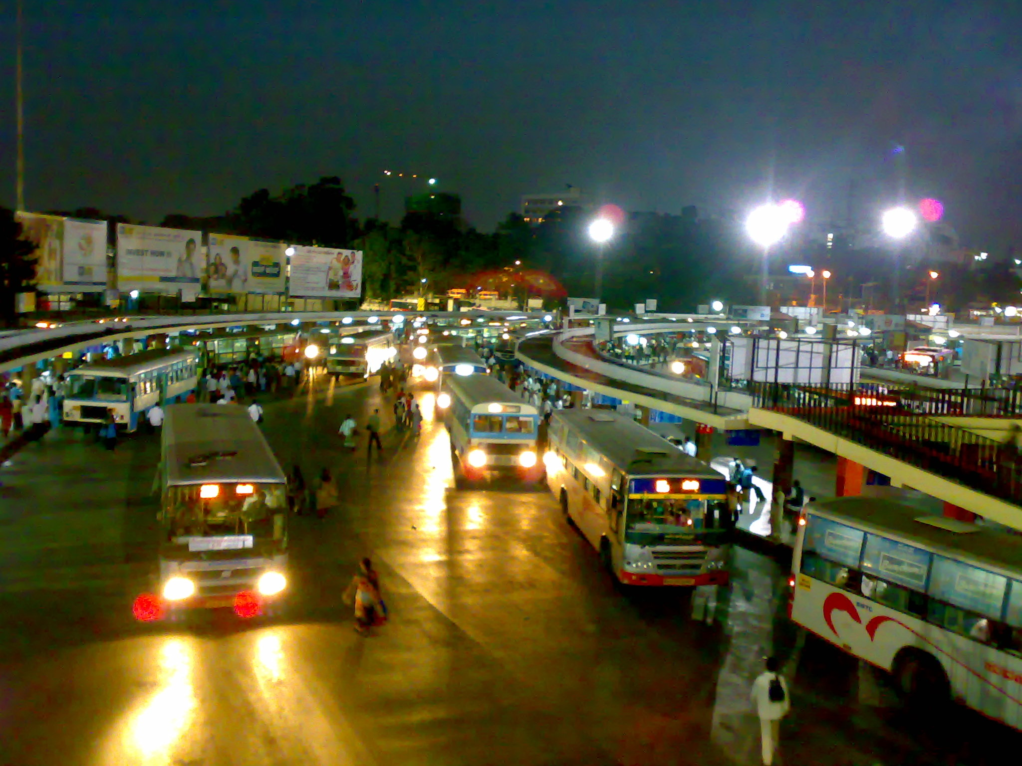 Majestic Bus Stand at twilight, Bangalore